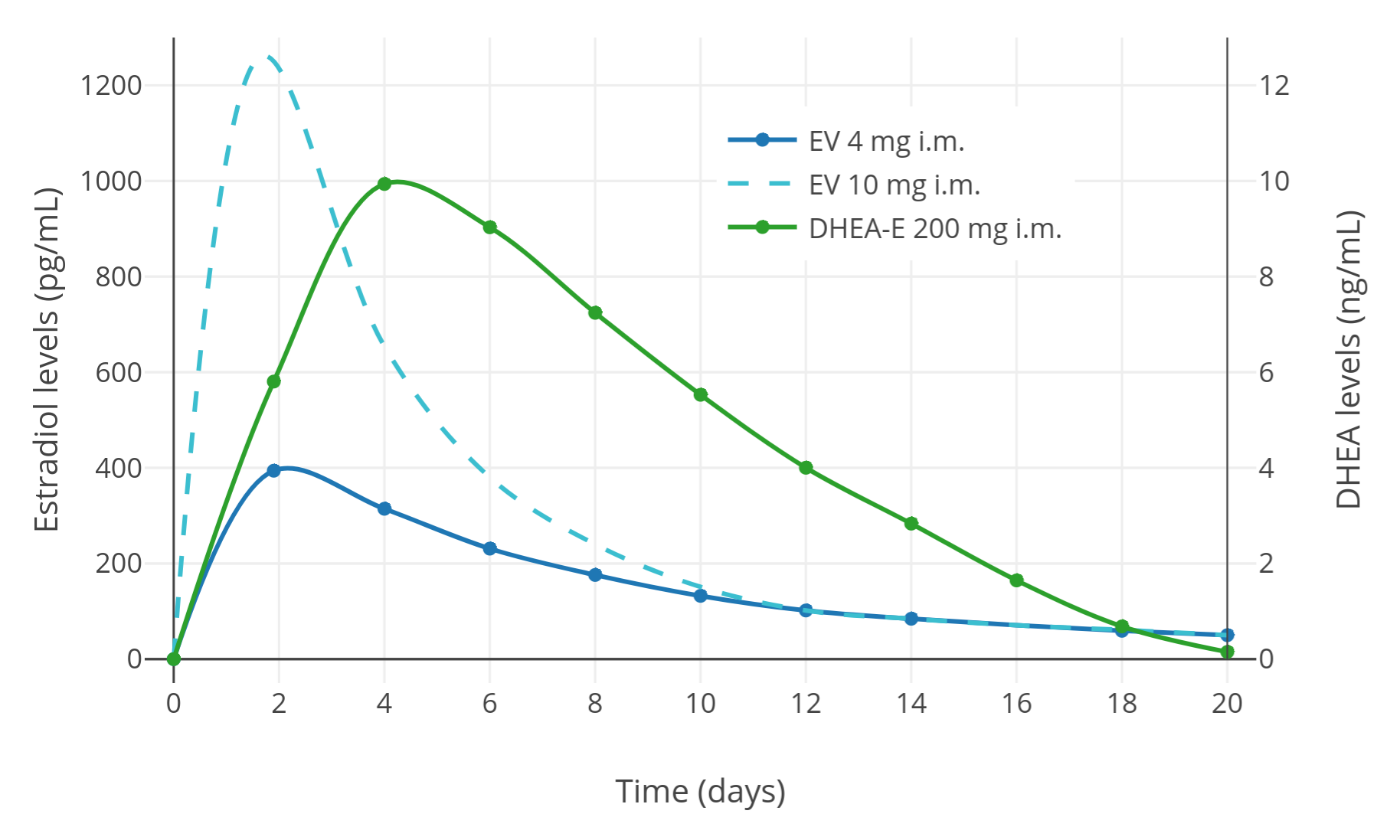 Levels of estradiol (pg/mL) and dehydroepiandrosterone (ng/mL) after a single intramuscular injection of Gynodian Depot (4 mg estradiol valerate, 200 mg prasterone enanthate) in 3 postmenopausal women. Levels of estradiol (pg/mL) after a single intramuscular injection of 10 mg estradiol valerate (Primogyn Depot ) in 6 ovariectomized women are also included for comparison. Determinations were made using radioimmunoassay. Chromatographic separation was explicitly mentioned in the case of 10 mg estradiol valerate. Sources of the values: (in german) (1987) Das Klimakterium – Pathophysiologie, Klinik, Therapie, Stuttgart, Germany: Thieme Verlag, p. 65 ISBN: 978-3137008019. (1983). "Plasma levels of dehydroepiandrosterone and 17 beta-estradiol after intramuscular administration of Gynodian-Depot in 3 women". Horm. Res. 17 (2): 84–9. PMID 6220949. (January 1980). "Serum oestrone, oestradiol and oestriol concentrations in castrated women during intramuscular oestradiol valerate and oestradiolbenzoate-oestradiolphenylpropionate therapy". Maturitas 2 (1): 53–8. PMID 7402086.